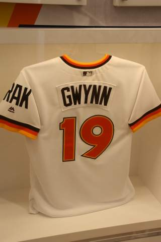 Tony Gwynn jersey from 1984 displayed at San Diego Padres Hall of Fame